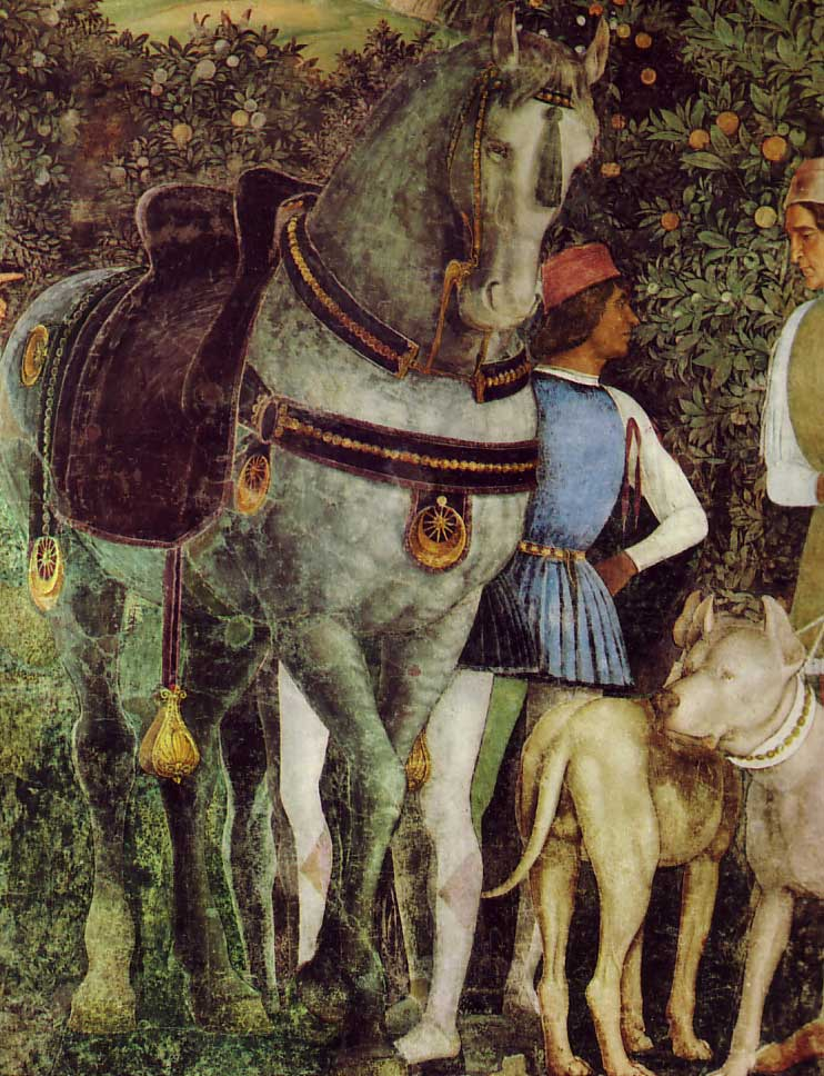 Detail from the East Wall of the Camera degli Sposi in Mantua. Horse and dogs (possibly Alaunt dogs).